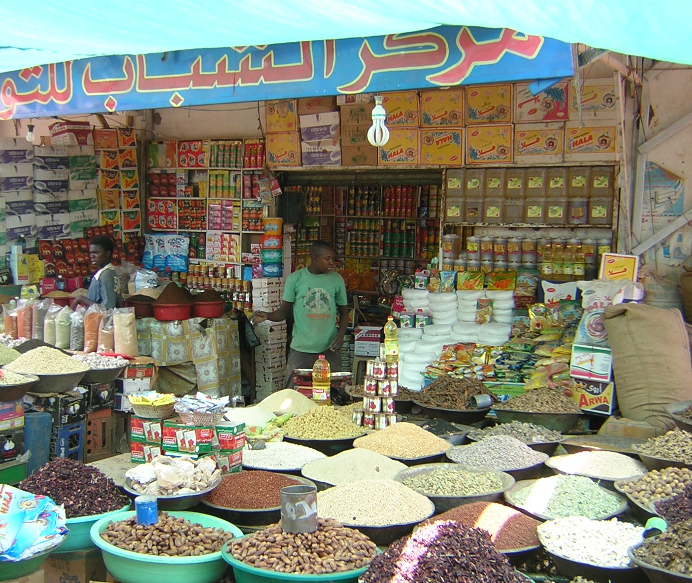 Market in Khartoum, Sudan.